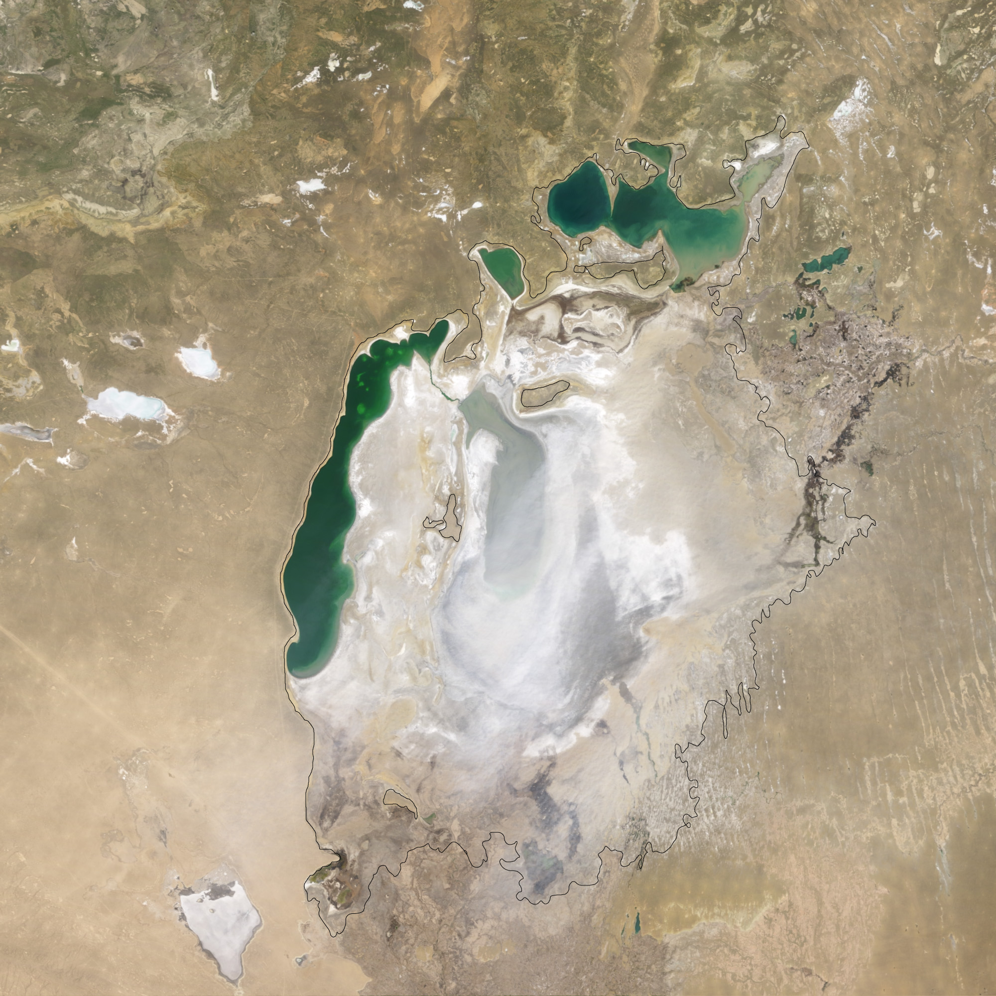 Dust Over the Aral Sea, approx. shoreline of 1960 outlined